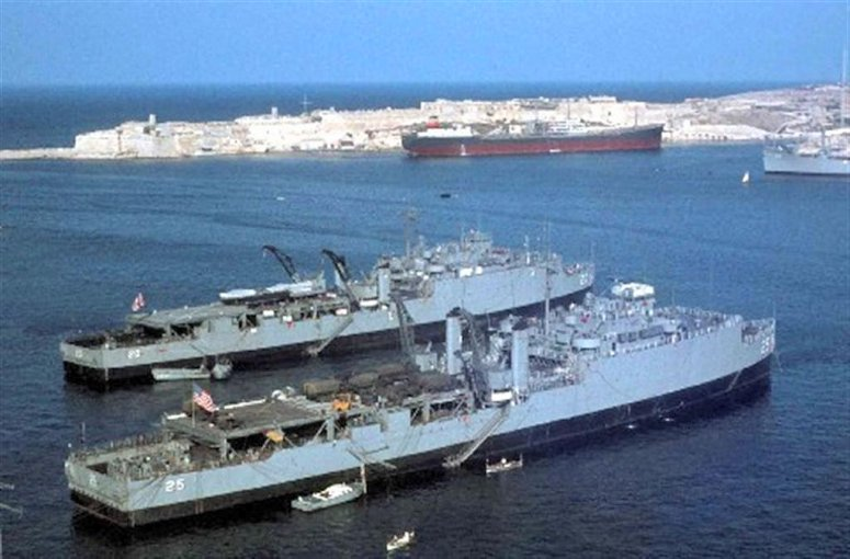 USS San Marcos with USS Donner. per danfs.